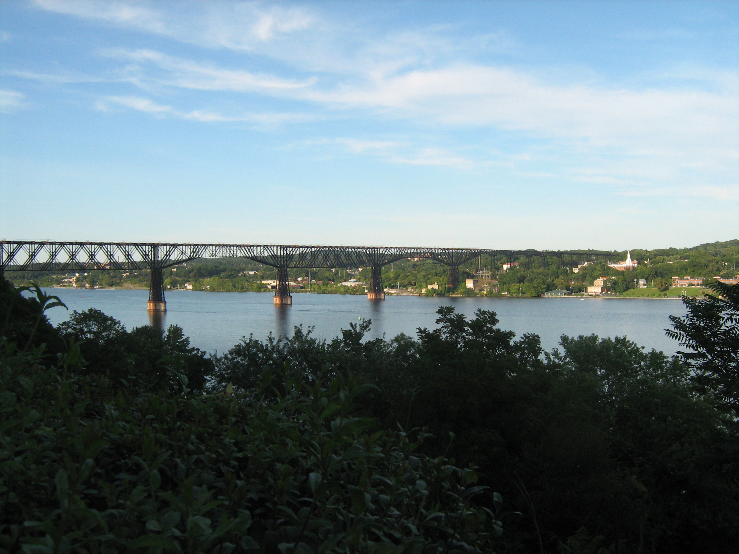 Looking northeast at Poughkeepsie Railroad Bridge from Johnson-Iorio Park, Highland, NY